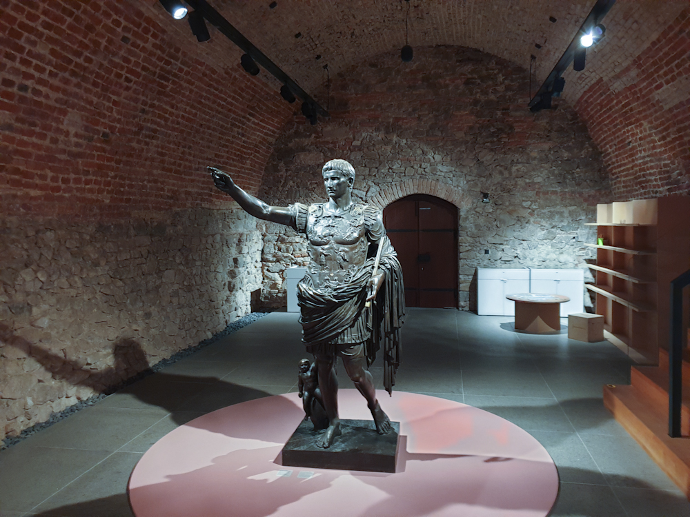 Statue_of_Augustus,_Roman_emperor_in_the_Historical_Museum,_Bratislavalabel QS:Len,"Statue_of_Augustus,_Roman_emperor_in_the_Historical_Museum,_Bratislava"label QS:Lhu,"Augustus római császár szobra a pozsonyi Történelmi Múzeumban"